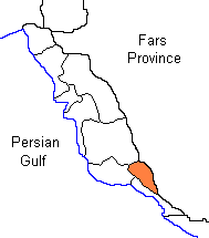 Jam County in Map of Bushehr Province of Iran